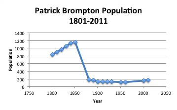 Total Population of Patrick Brompton Civil Parish, North Yorkshire, as reported by the Census of Population from 1801 to 2011.